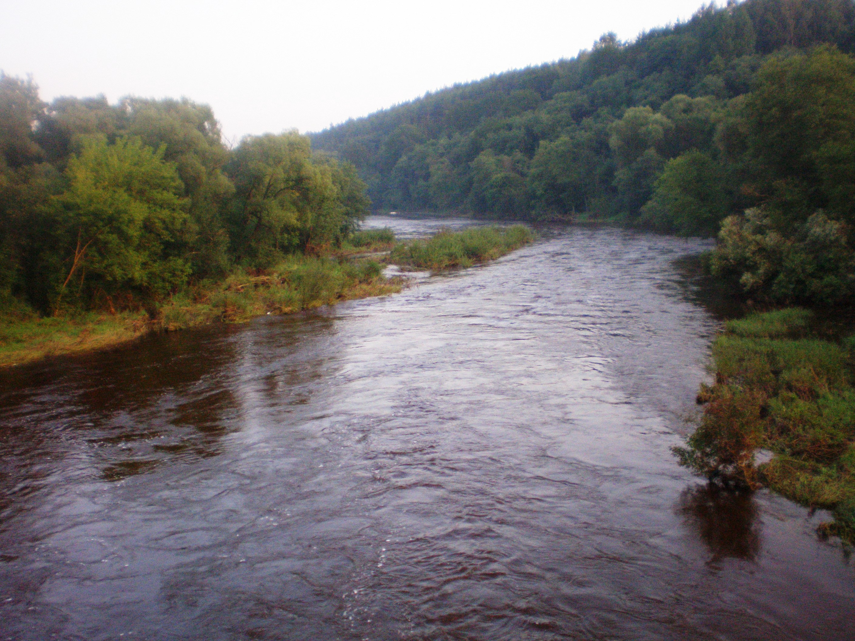 Dubysa River near Ariogala. Lithuania